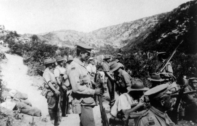 Australian infantrymen from the 10th Battalion at Gallipoli, c. August 1915